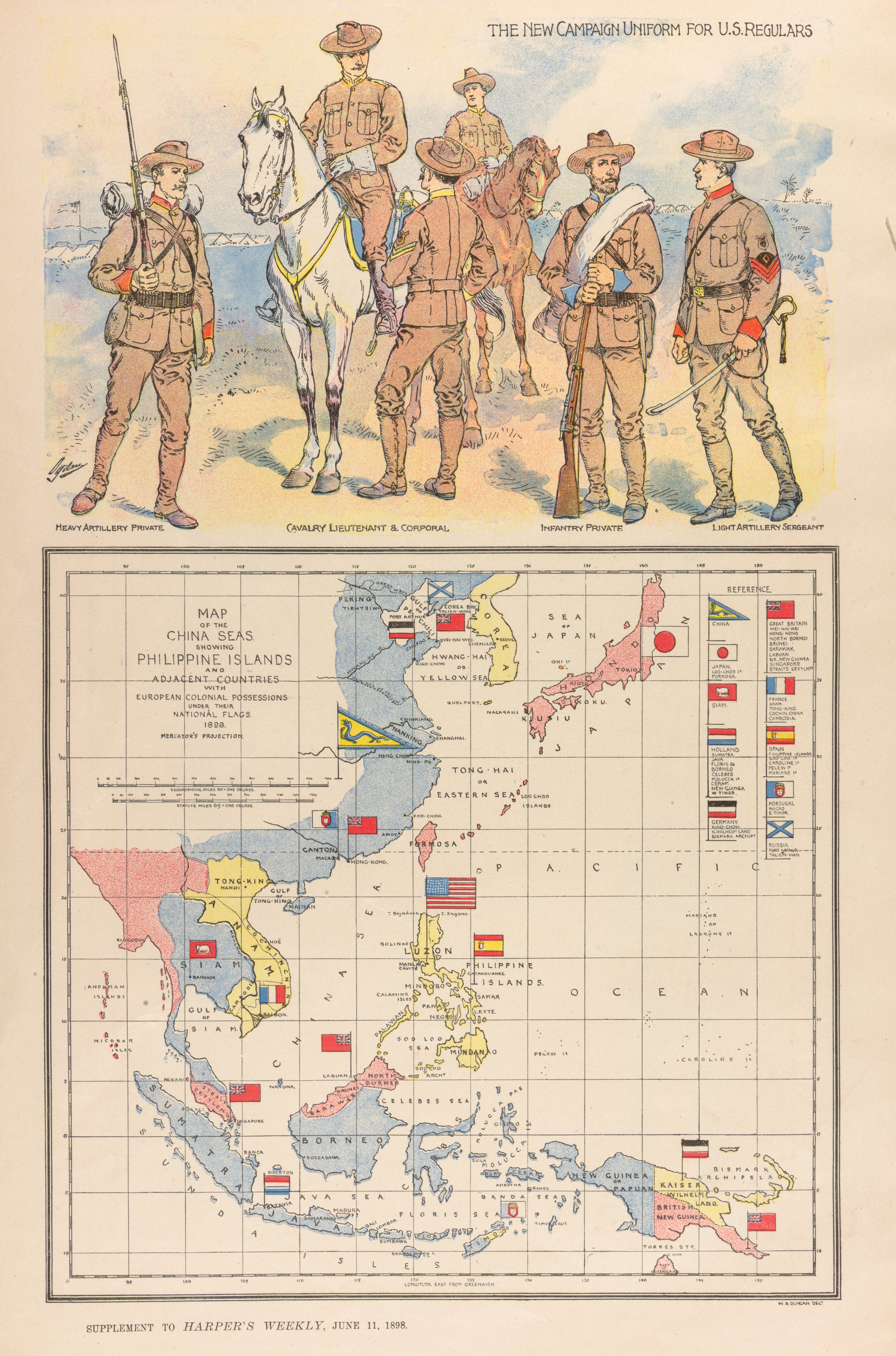 A "patriotic" map of the China Seas at the outset of the Spanish American War.